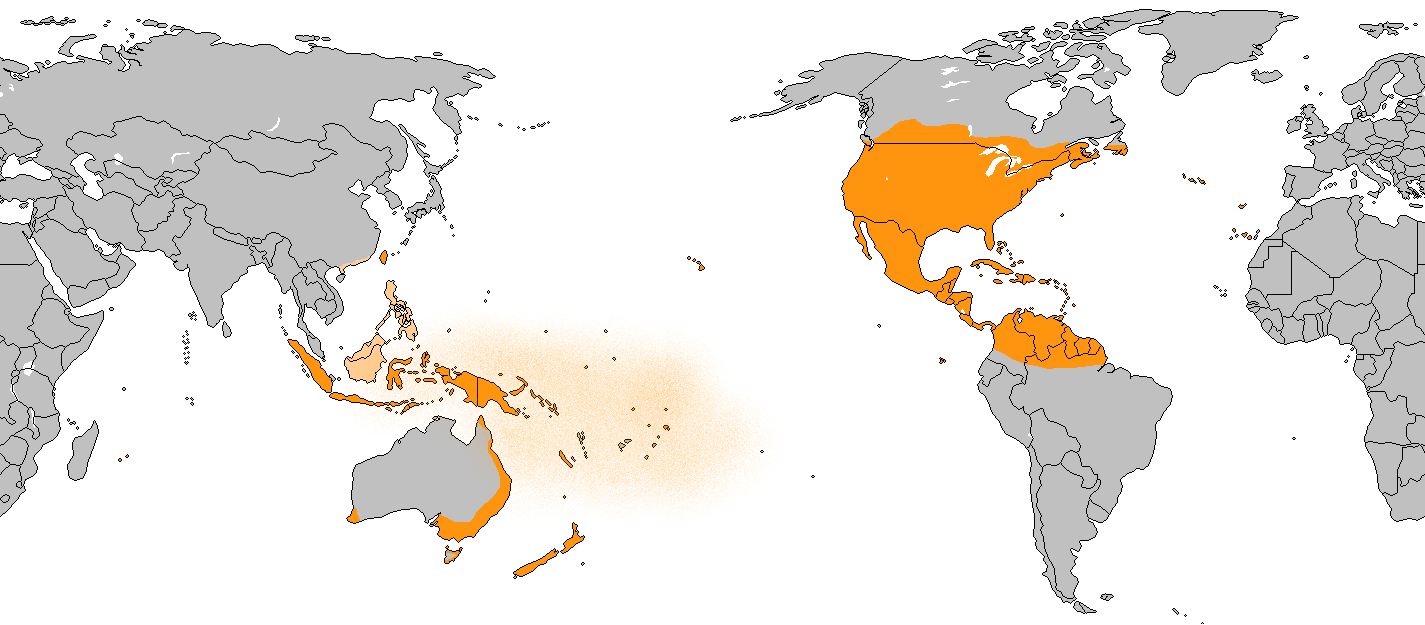 Distribution of Monarch Butterfly Danaus plexippus (large)